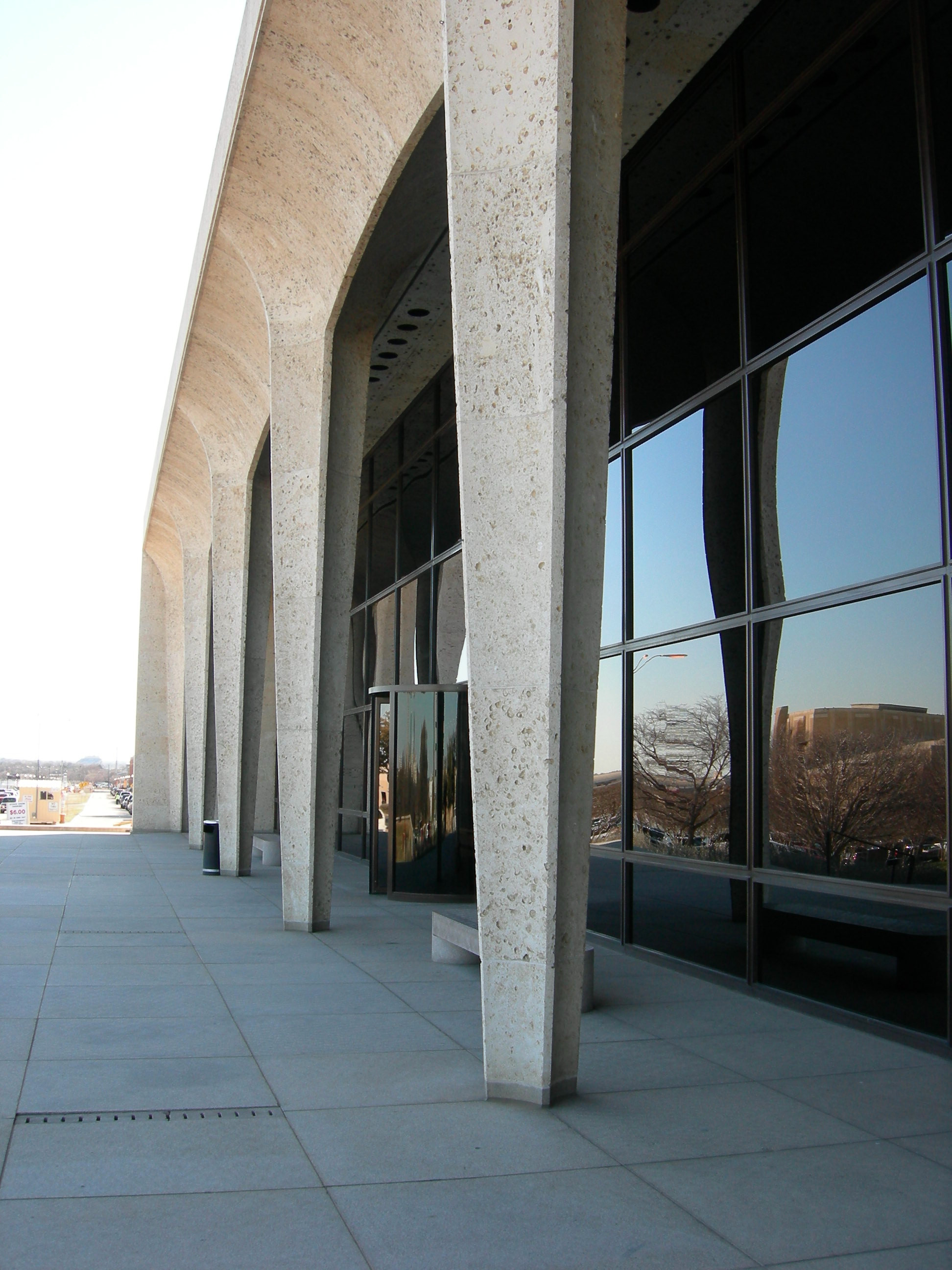 Portico of the Amon Carter Museum, Fort Worth, Texas.